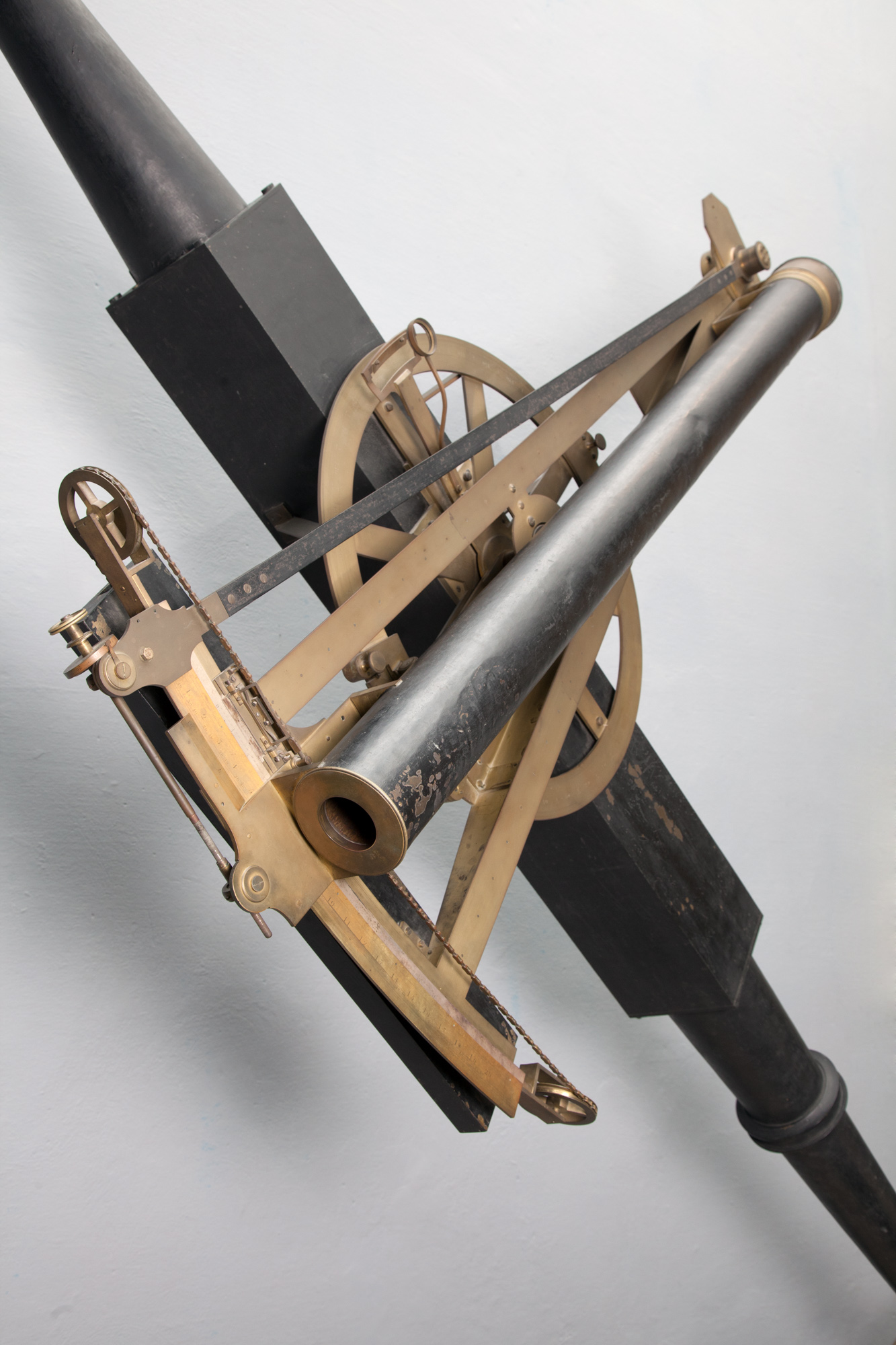 Settore equatoriale di Jeremiah Sisson, 1774, esposto al Museo nazionale della scienza e della tecnologia Leonardo da Vinci, Milano.